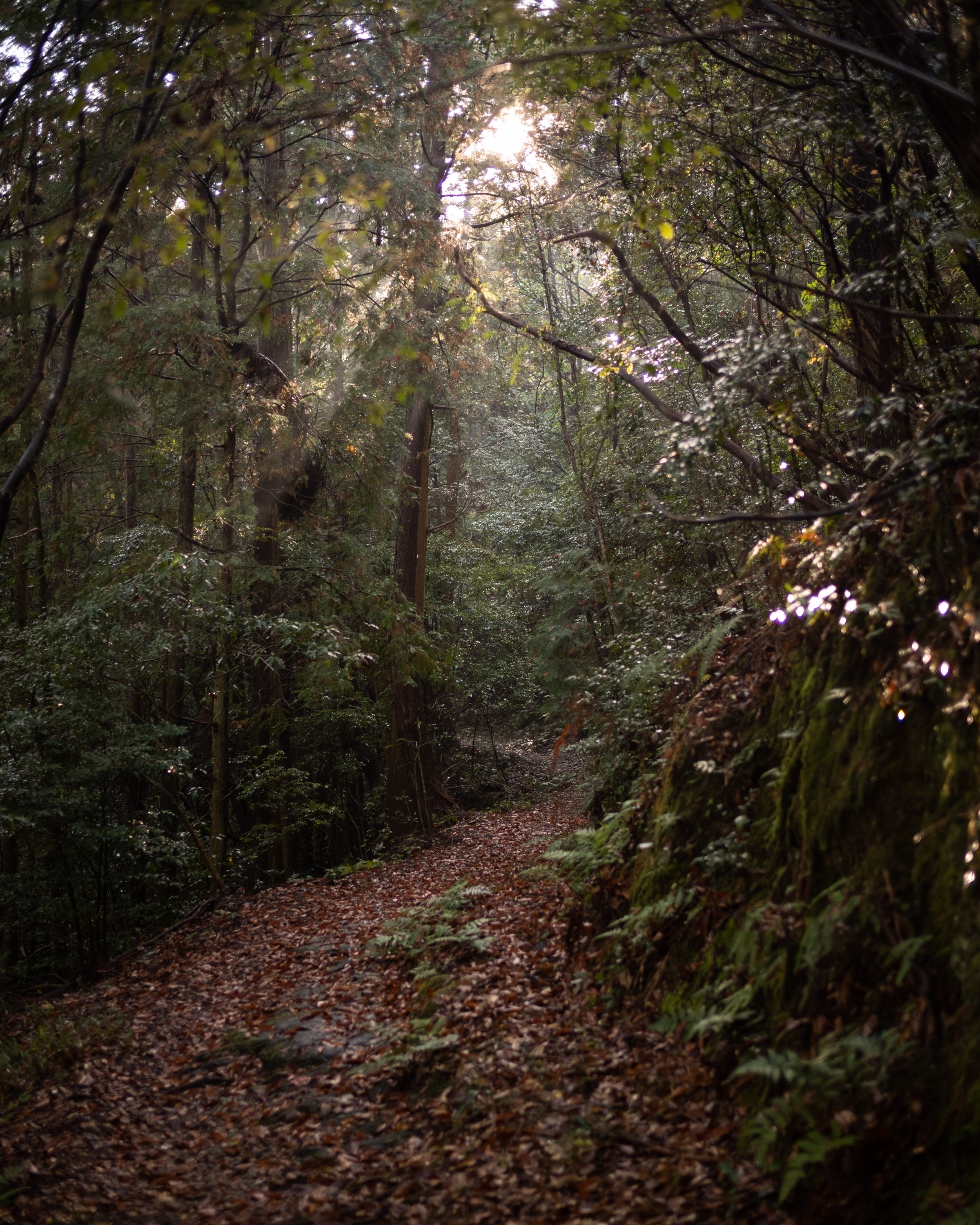 The path leading up to Meki Tōge